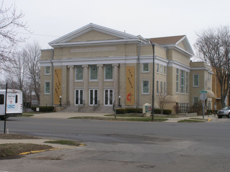 Plymouth First United Methodist Church, at 400 N. Michigan St., Plymouth, Indiana, United States. It is part of the Plymouth Northside Historic District, a historic district that is listed on the National Register of Historic Places.